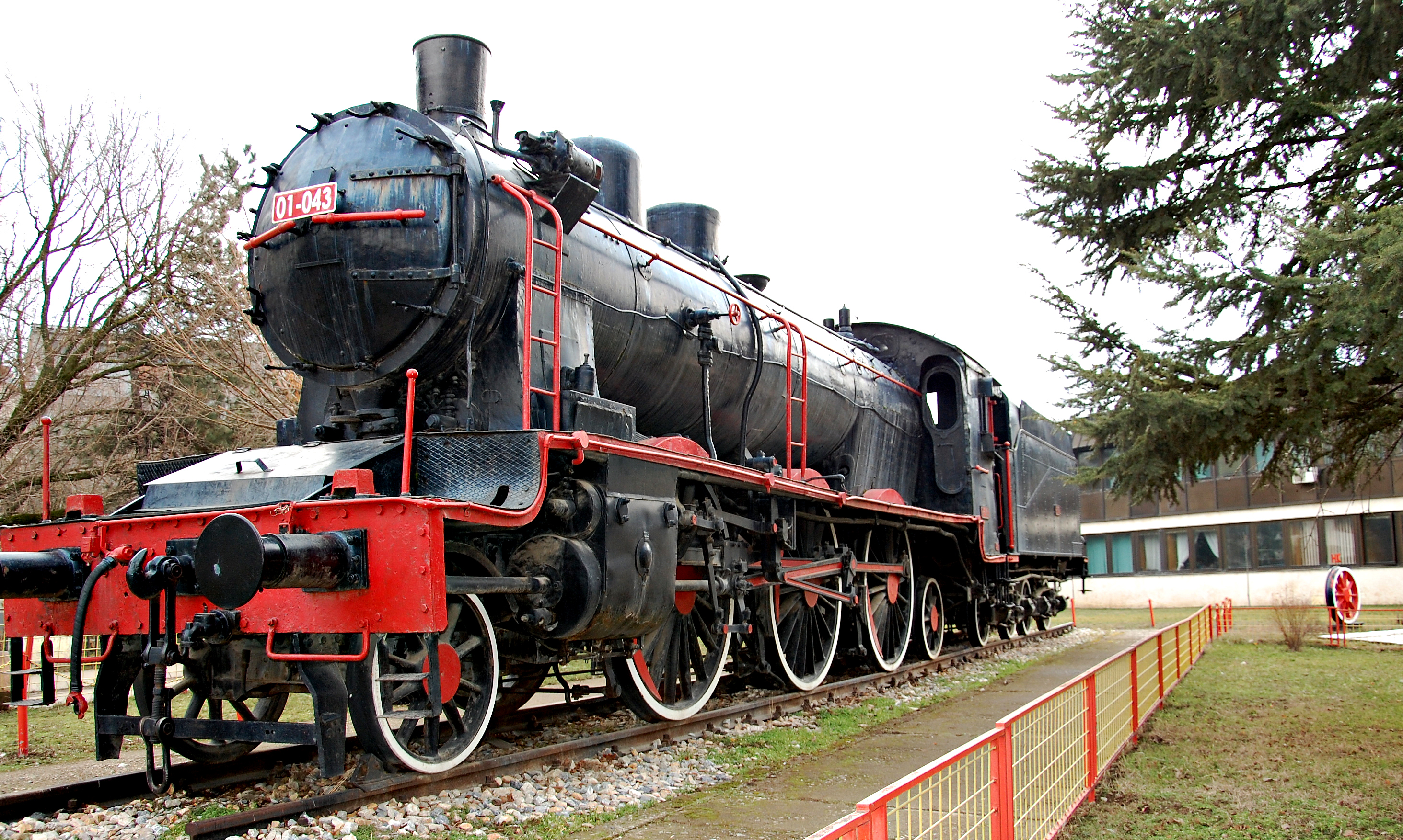 Fushe Kosove